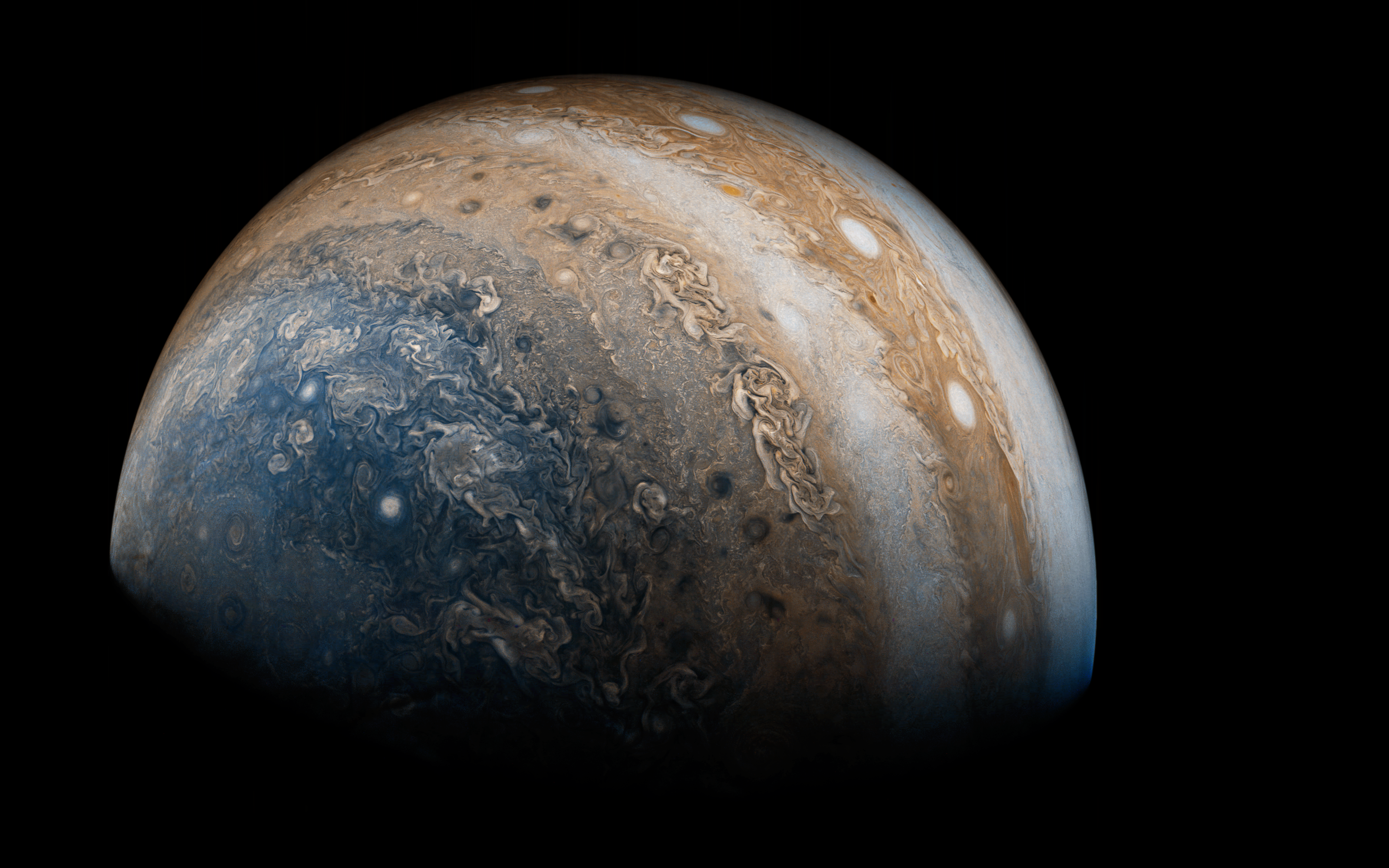 JunoCam image of Jupiter's southern hemisphere. This view captures the south polar region with numerous folded filamentary regions. It also captures a portion of the "string of pearls", a chain of white ovals located in the south south (repetition intentional) temperate belt. This image was acquired during the Perijove 6 imaging campaign on May 19, 2017. When this image was taken, Juno was at an altitude of 47,000 km as it departed from the vicinity of Jupiter. This image is based on initial processing efforts by Gerald Eichstädt.